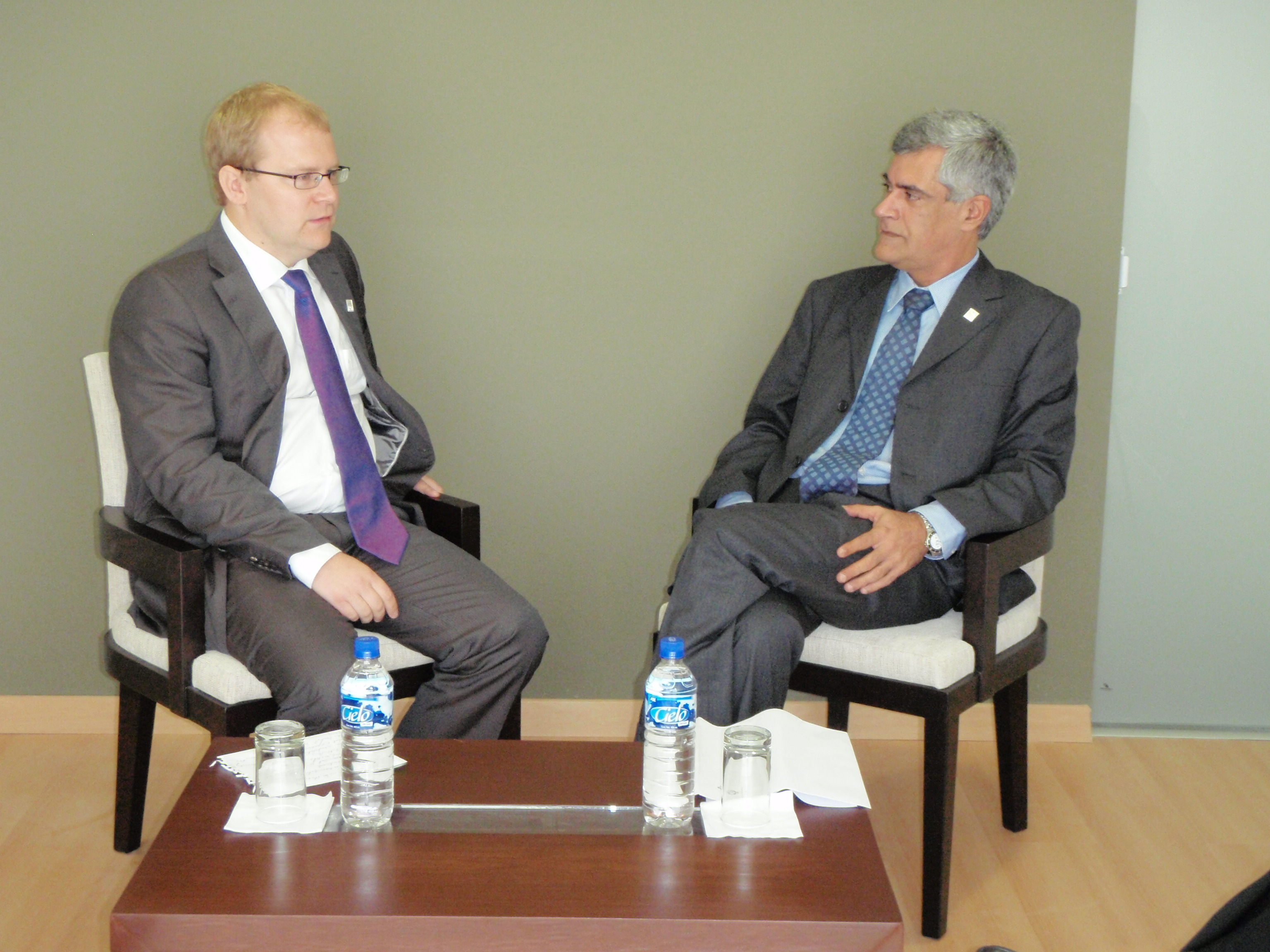 Foreign Minister of Estonia Urmas Paet (left) and Foreign Minister of Uruguay Pedro Vaz (right) in Lima.